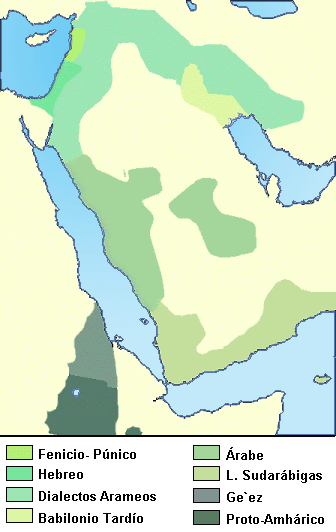 Approximate distribution of Semitic languages around 1 A.D. Note that "Hebrew" on the map covers a variety of Canaanite dialects.